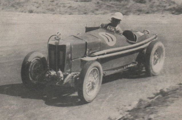 The MG NE Magnette of John Barraclough, being driven to victory in the 1948 New South Wales Hundred at the Mount Panorama Circuit, near Bathurst, in New South Wales, Australia.